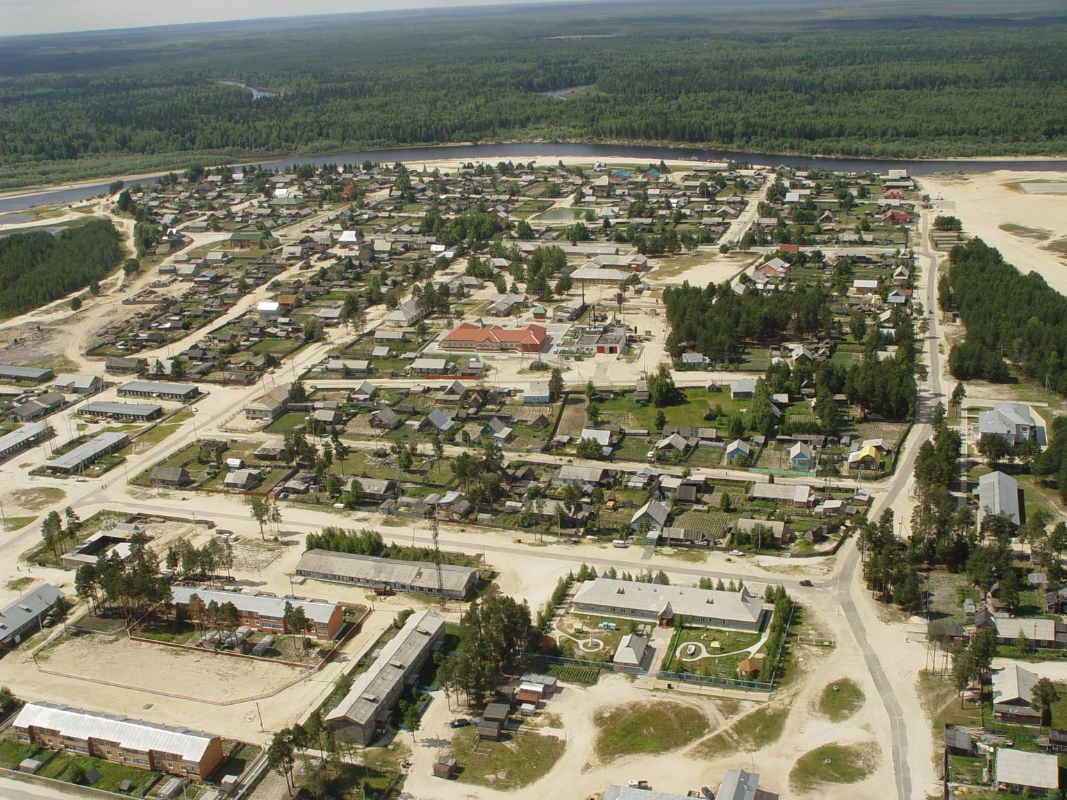 village Ugut on the river Bolshoj Jugan